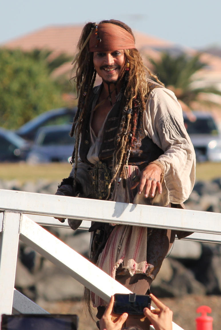 Johnny Depp in full costume returning to land in Cleveland, Queensland after a day of filming for the movie Pirates of the Caribbean: Dead Men Tell No Tales. Located at the Raby Bay Volunteer Marine Rescue on June 4, 2015.